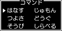 Command window as we can see in Dragon Quest (Dragon Warrior) video games. It's not a screenshot of this game. It was created by Fuji-77, by using Homepage Builder V6.5 with Hotmedia Lite: Web Art Designer(IBM).